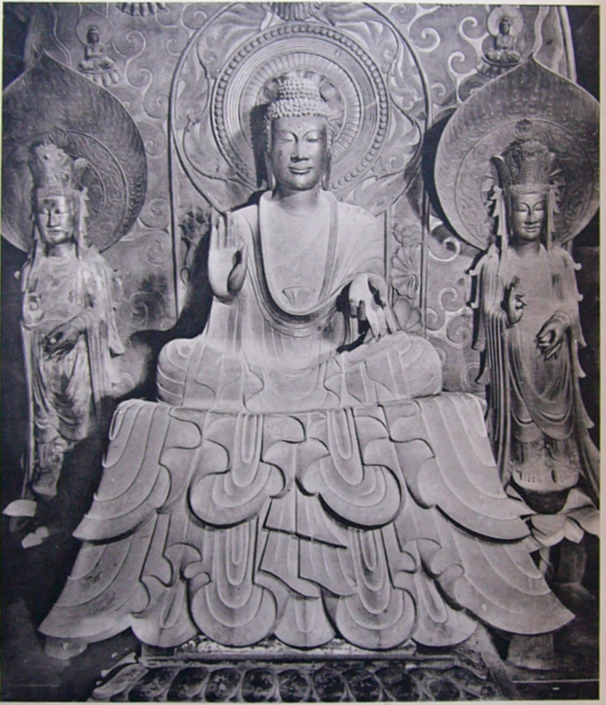 Bronze Statue of Shakyamuni Buddha Triad, center detail, dated ACE623 center 87.5cm body height, left 92.3cm, right 93.9cm, in Horyuji Monastery, Nara, Japan